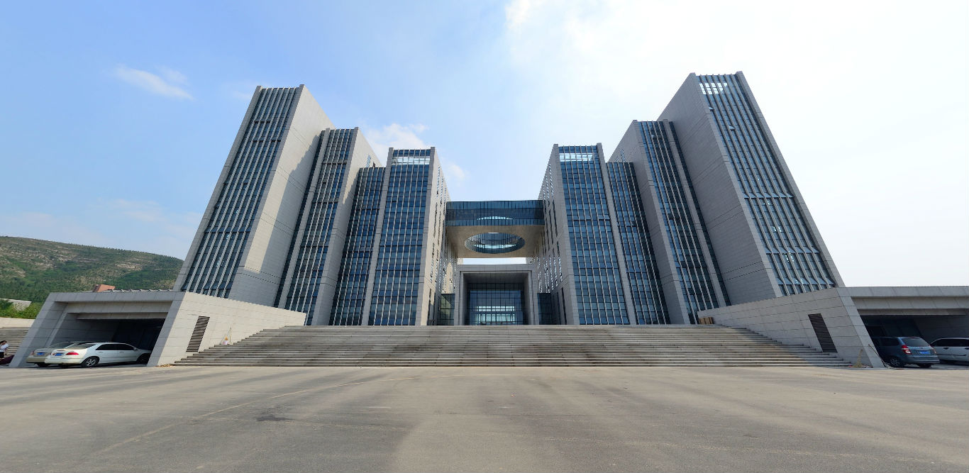 Liberary of Shandong Normal University